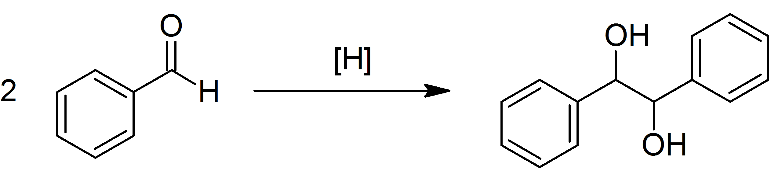 Pincaol coupling